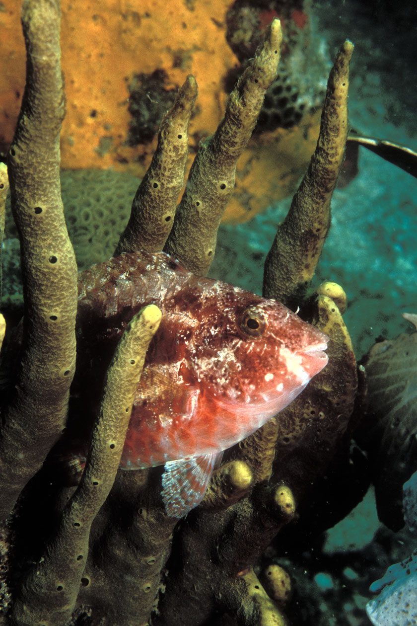 Sparisoma aurofrenatumA Parrotfish photographed in the waters of Arraial do Cabo, Brazil